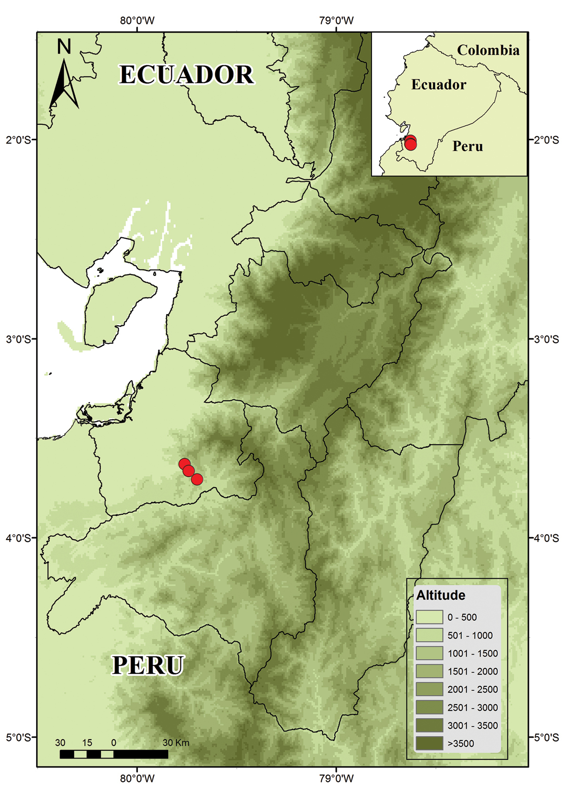 Distribution of Pristimantis prometeii sp. n. in Ecuador. Occurrence records are marked with red dots.